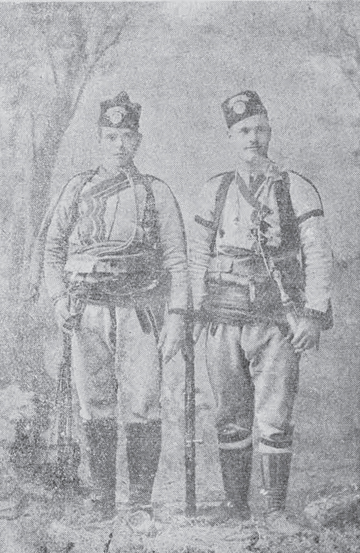 Toma Lyatov and Hristo Yanchev from Borisovo, Strumishko